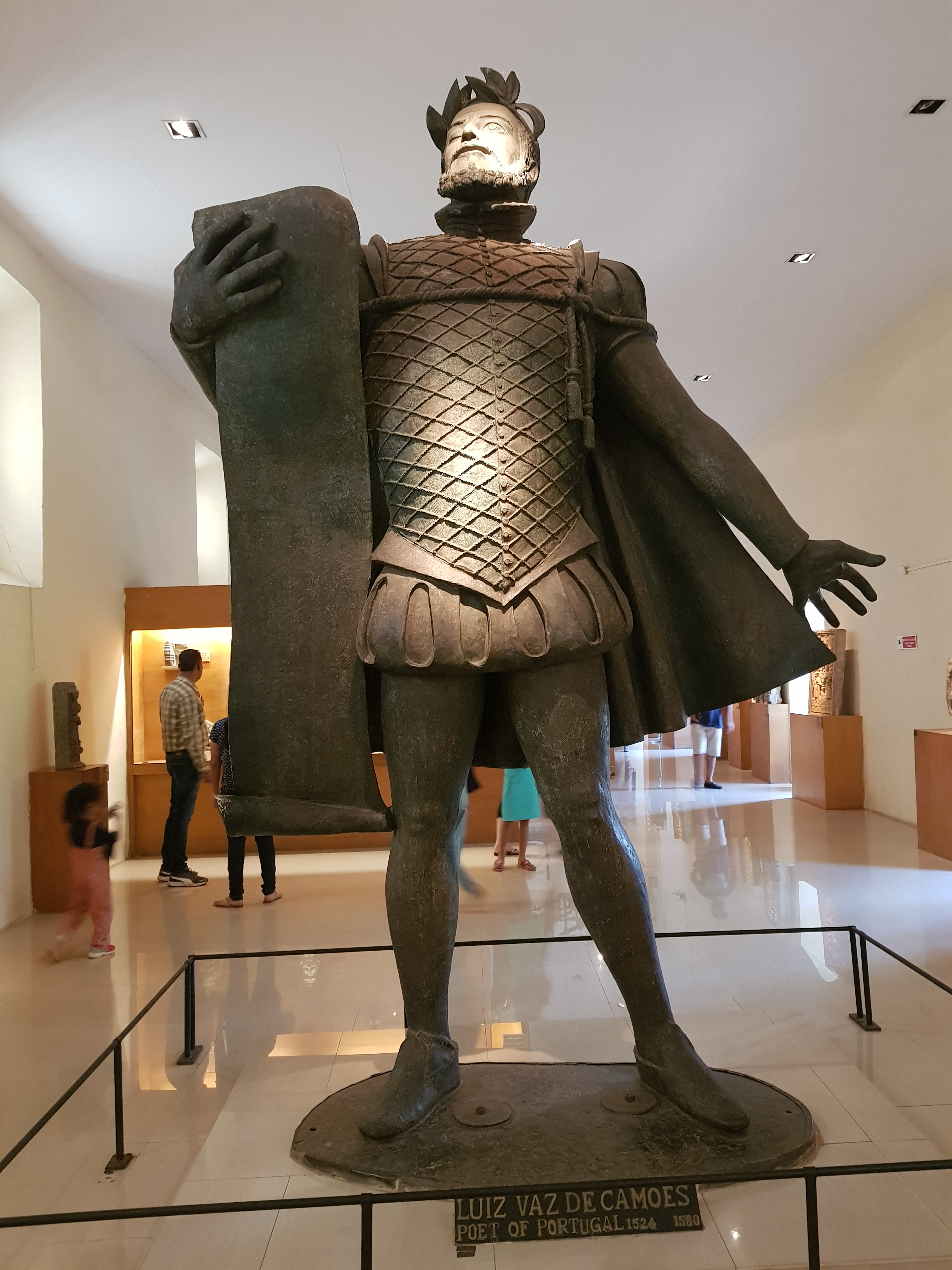 Luís de Camões Statue in a museum of Goa, India